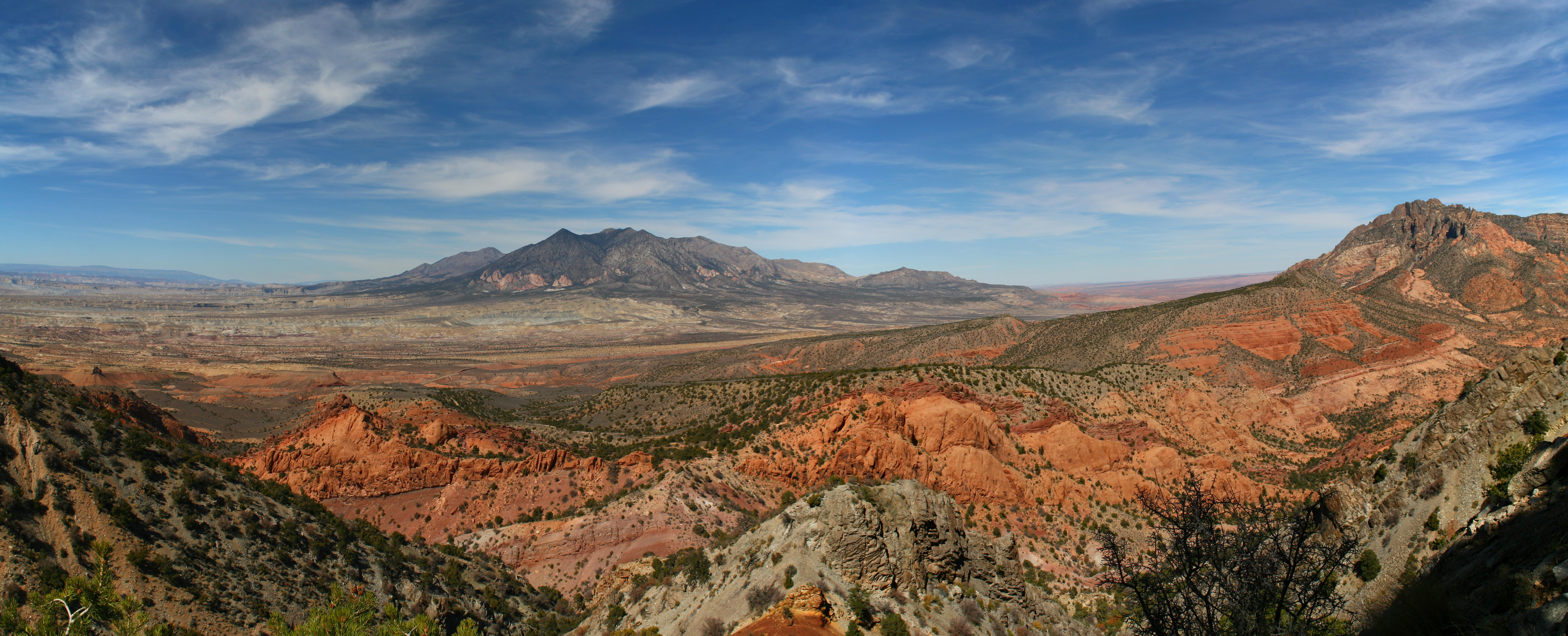 Mount Hillers at the core of the Henry Mountains in Utah. In 1877 the USGS published a report "On the Geology of the Henry Mountains", on the small range of peaks in southern Utah. Up to that point, little scientific study had been made of the unassuming peaks, but the author of the report, one Grove Karl Gilbert, not only detailed the structure and mineralogy of the landscape, but in doing so also laid the foundations for much of modern geomorphology. While beautiful, the range is isolated and of limited economic value; Gilbert himself notably wrote that "No one but a geologist will ever profitably seek out the Henry Mountains", while the name given to the range by the Navajo is Dził Bizhiʼ Ádiní, literally meaning “mountain whose name is missing”. And yet, the wildness of the range is sufficient attraction for some - this is Mt Hillers, at the centre of the 5 peak range. Credit: Robert Emberson (distributed via ).